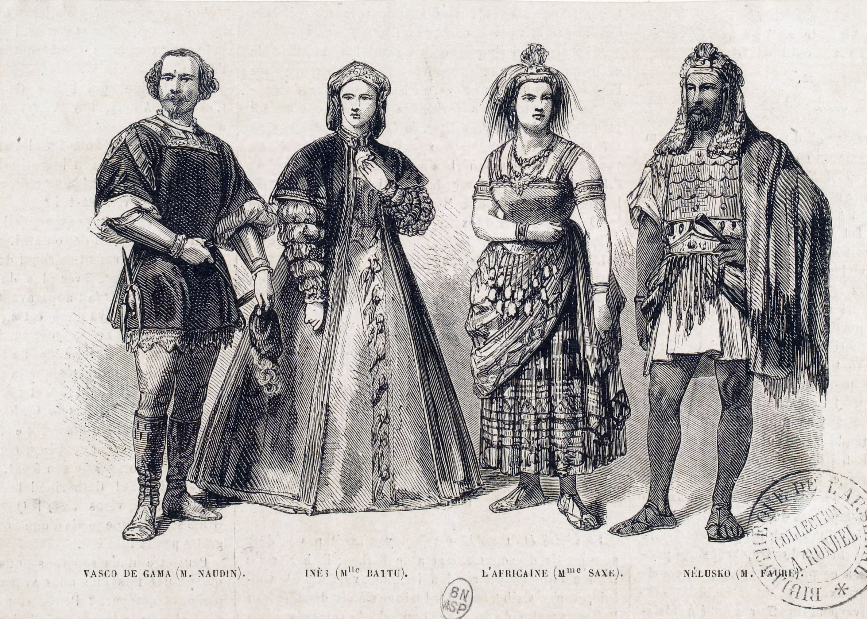 The four principals in costume for Giacomo Meyerbeer's opera L'Africaine in the Paris 1865 premiere (press illustration). From left to right: Emilio Naudin as Vasco da Gama; Marie Battu as Inès; Marie Sasse as Sélika; Jean-Baptiste Faure as Nélusko.